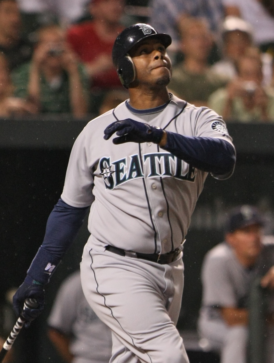 Ken Griffey in June 2009.